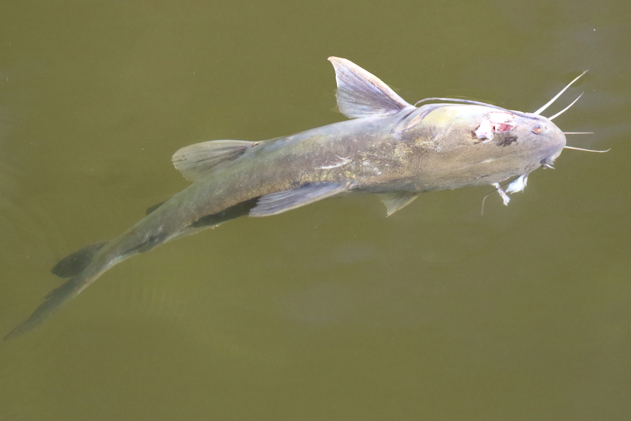 Blue Catfish (Neoarius graeffei). Species of fish.